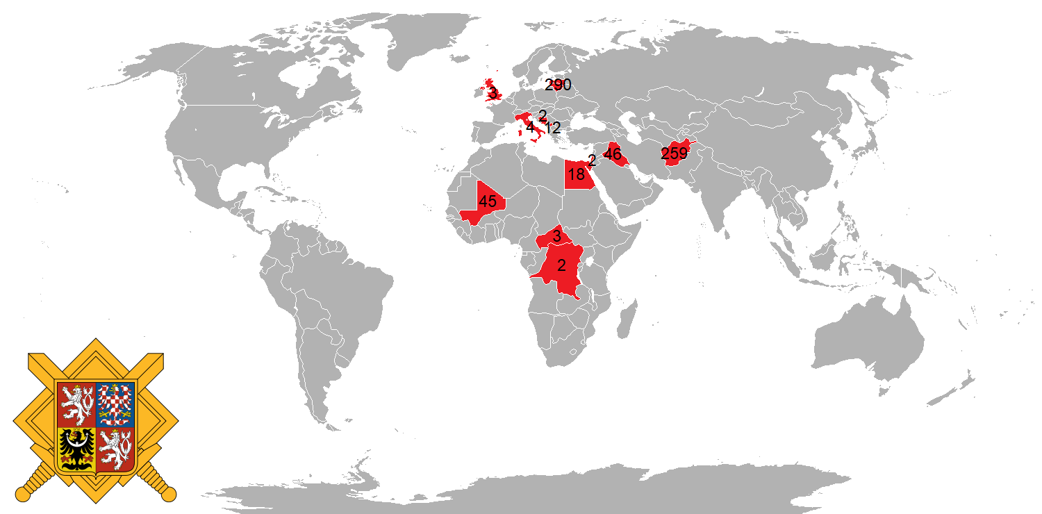 Map of foreign deployments of the Czech Army with numbers of deployed soldiers as of mid-2018 (May, June, July). Data